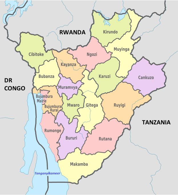 Provinces of Burundi (after 2015) - Dutch labels